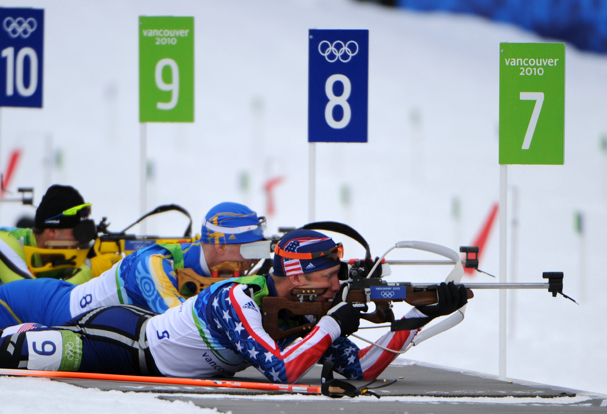 U.S. Army World Class Athlete Program biathlete Sgt. Jeremy Teela (far right, #9) shoots a perfect 10 for 10 from the prone position en route to a 24th place finish Feb. 16 in the OIympic men's 12.5-kilometer pursuit at Whistler Olympic Park in British Columbia, Canada. With #8: Björn Ferry, in green Pavol Hurajt